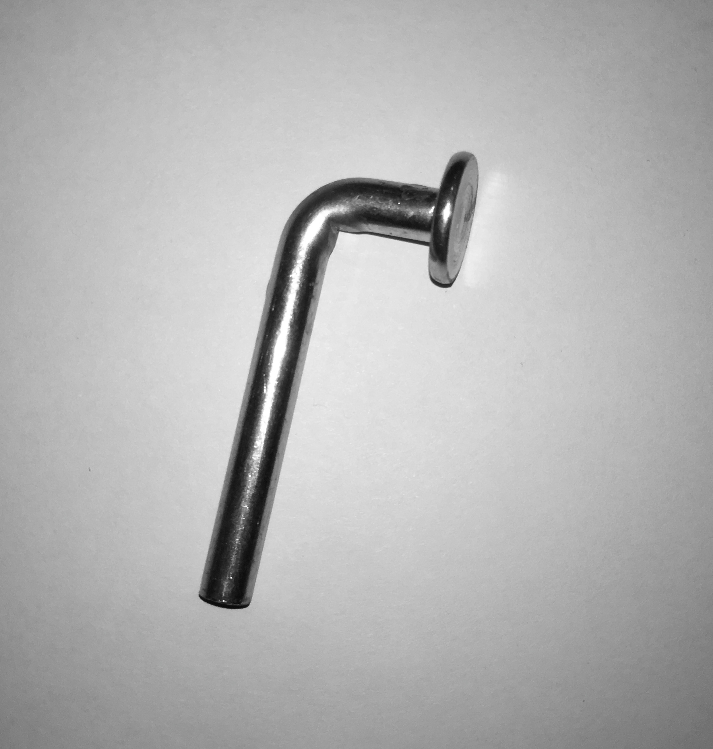 The Pallet Rack Safety Bolt - Pallet Rack Cross Beam Locking Device. Increases safety in pallet rack shelving.